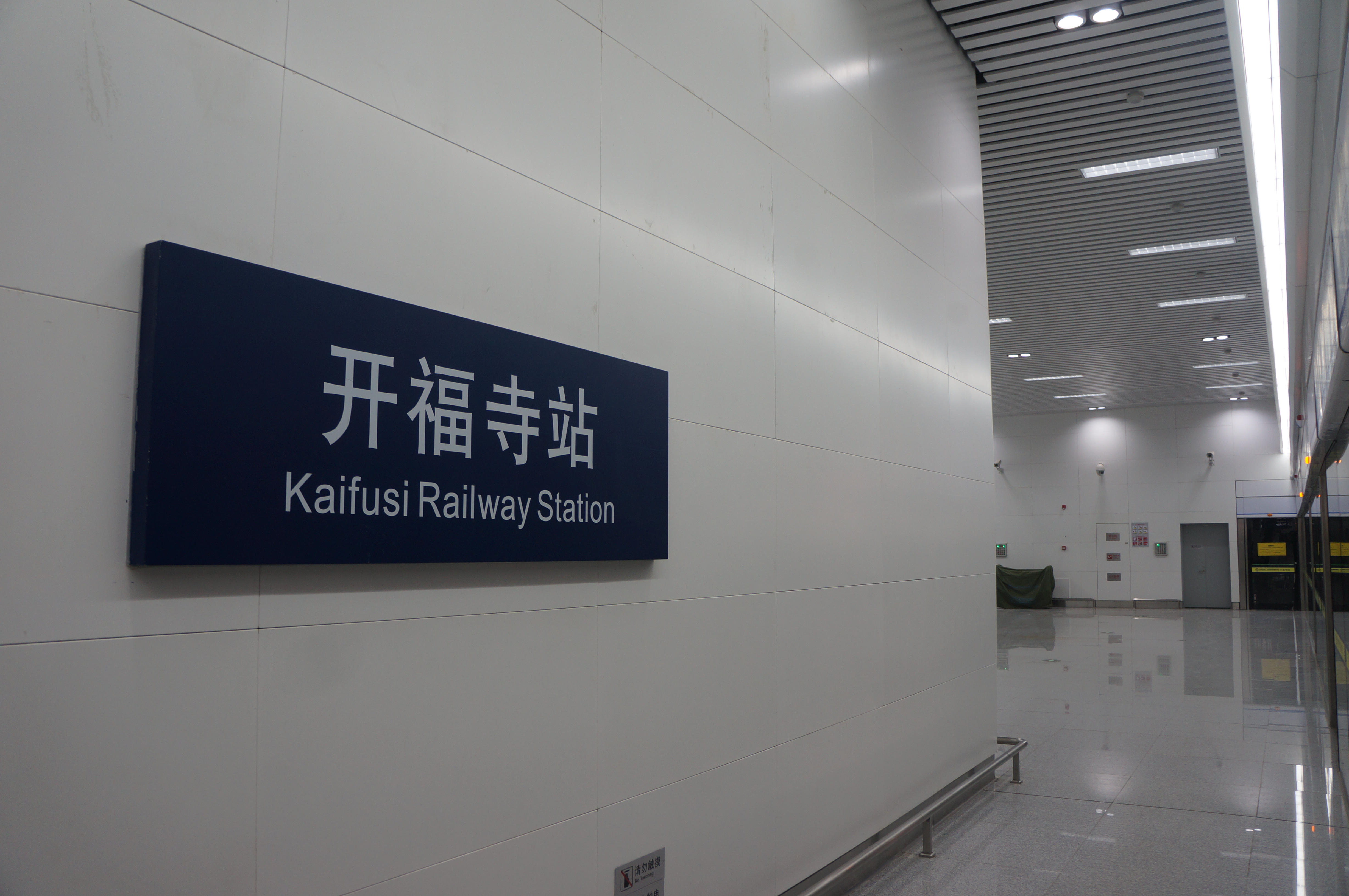 201712 Nameboard of Kaifusi Station, the announcement says Kaifu Temple Railway Station